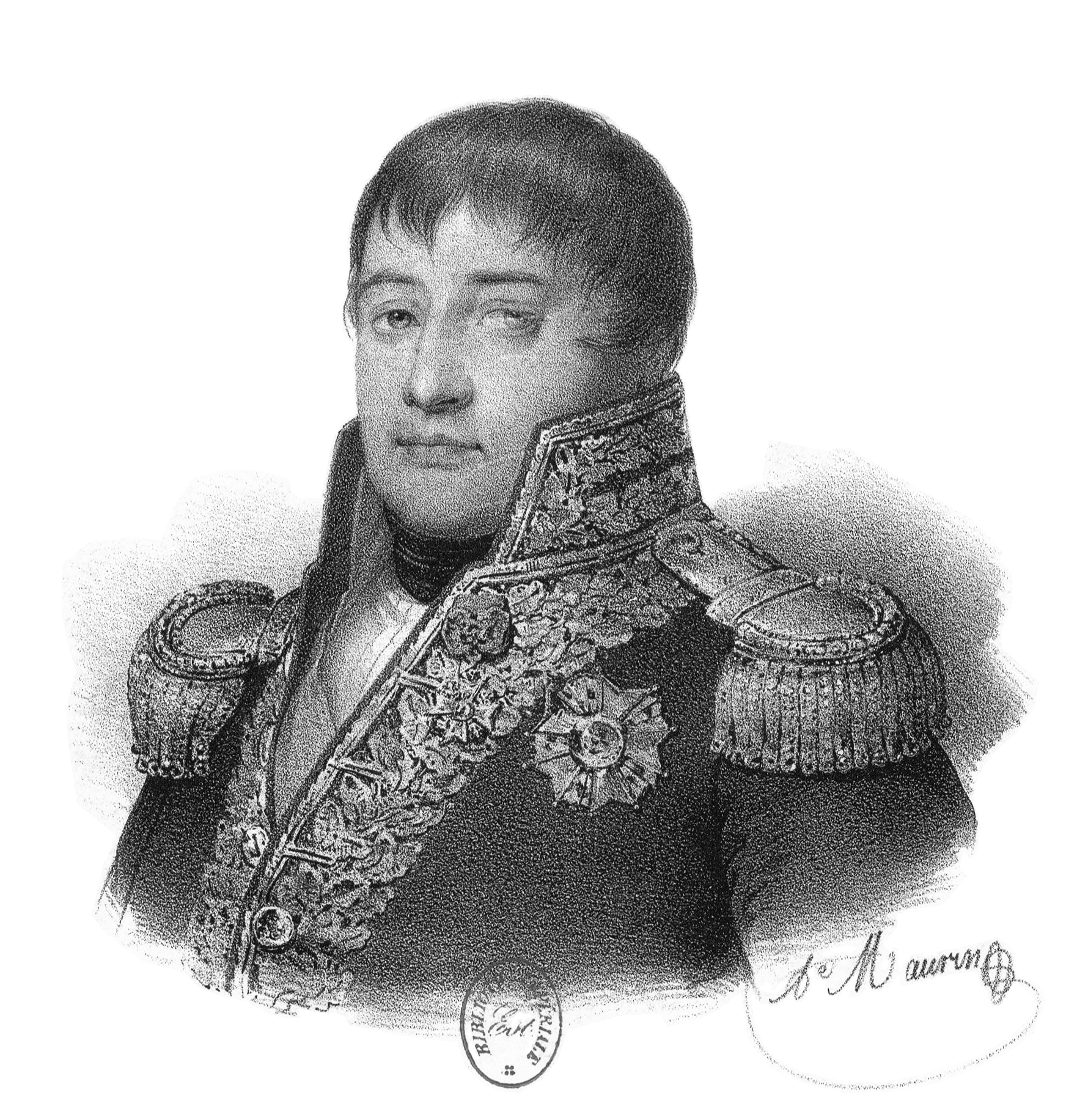 Portrait of French naval officer Zacharie Allemand